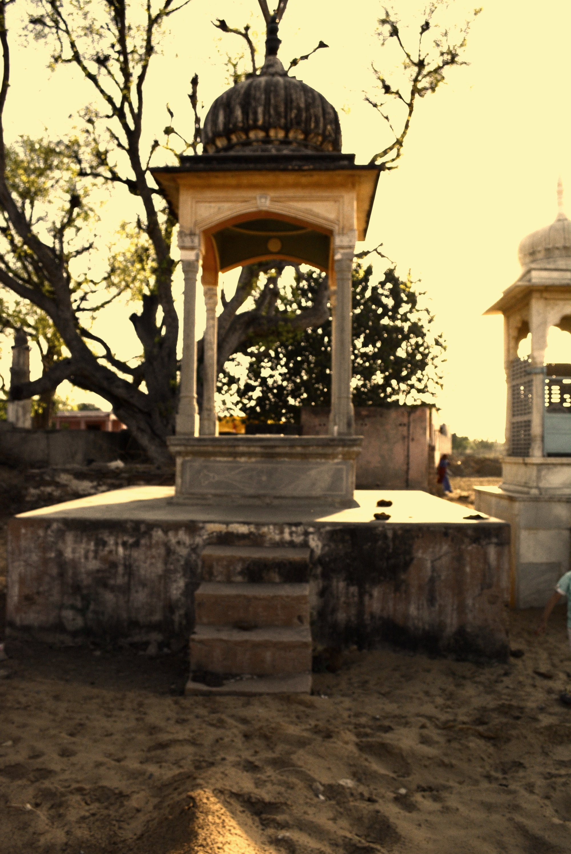 Dome shaped cenotaphs called Chhatris at Jiliya, Rajasthan, India.